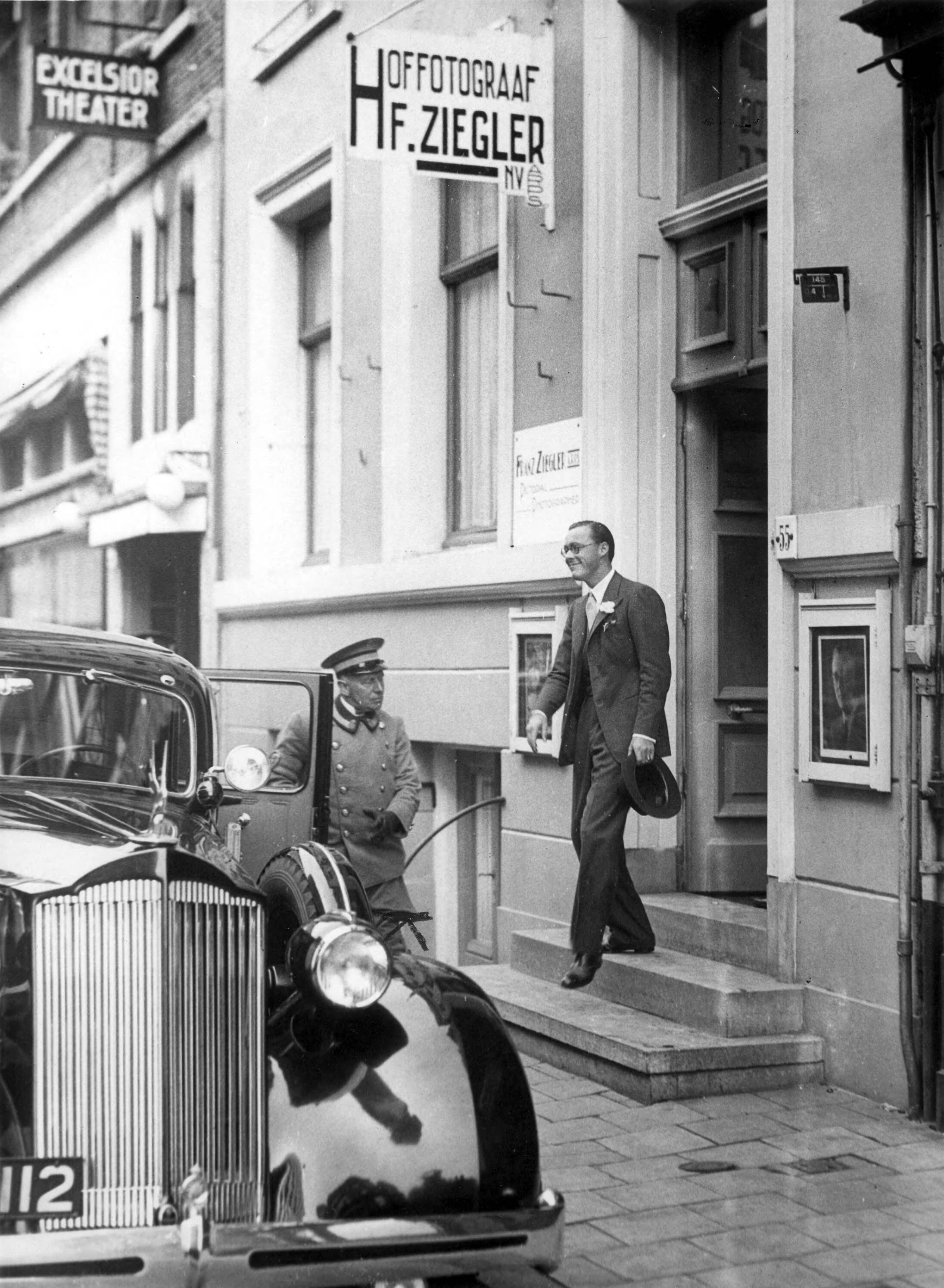 Prince Bernhard of the Netherlands leaves the office of photographer Franz Ziegler in The Hague (The Netherlands), 1 Sept. 1936. (Packard automobile). Photographer unknown, but probably Franz Ziegler